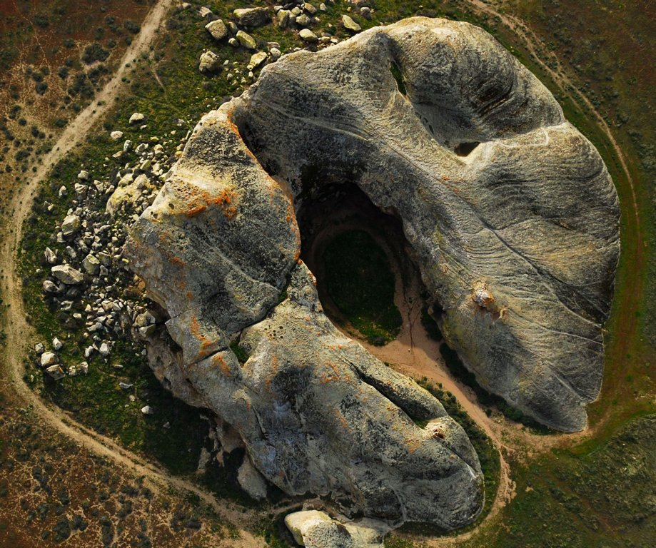 Aerial photo of Painted Rock near the village of California Valley on the Carrizo Plain, between San Luis Obispo and Bakersfield, California.